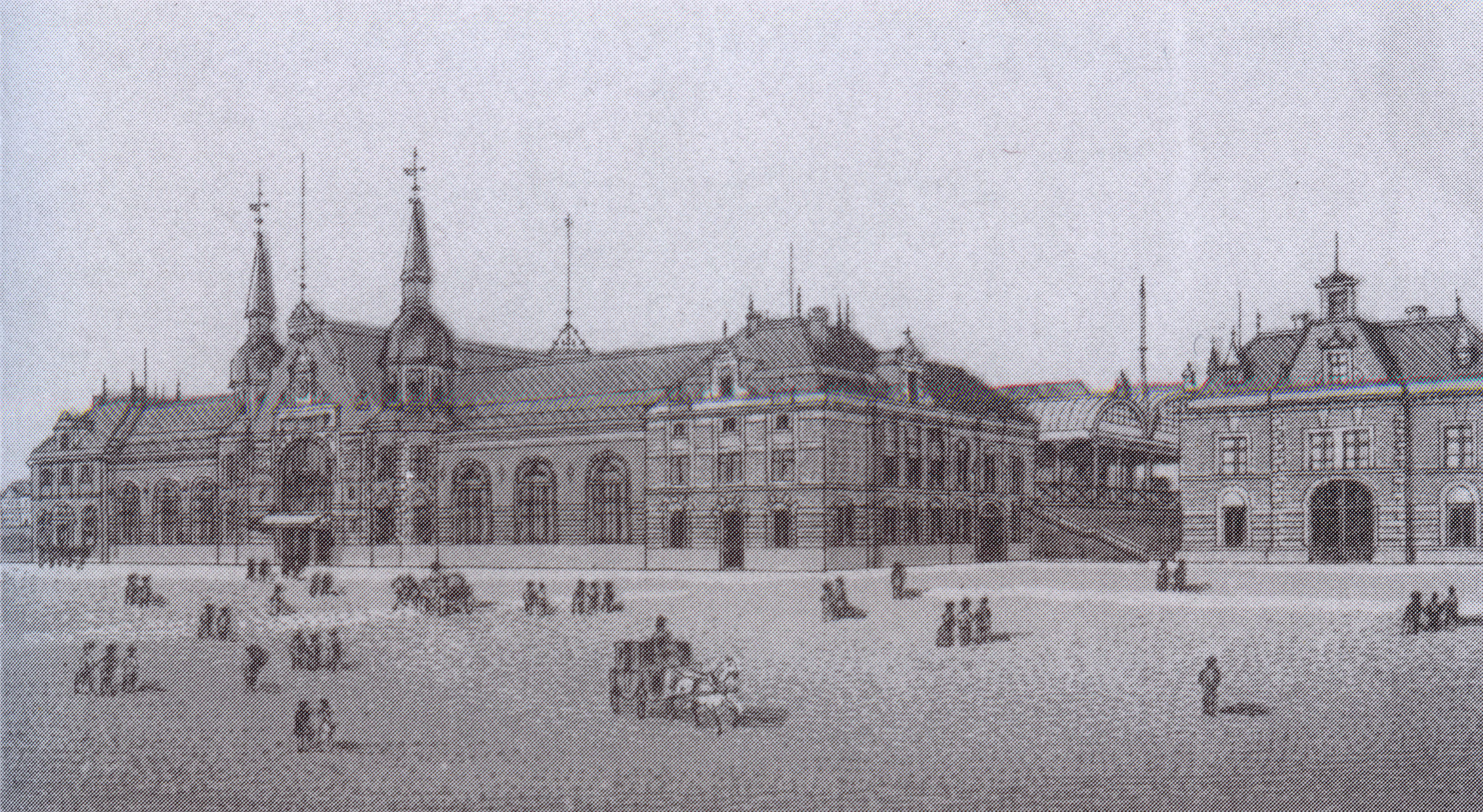 The Zentralbahnhof (Central station) in Münster, Westphalia, Germany, as of 1890